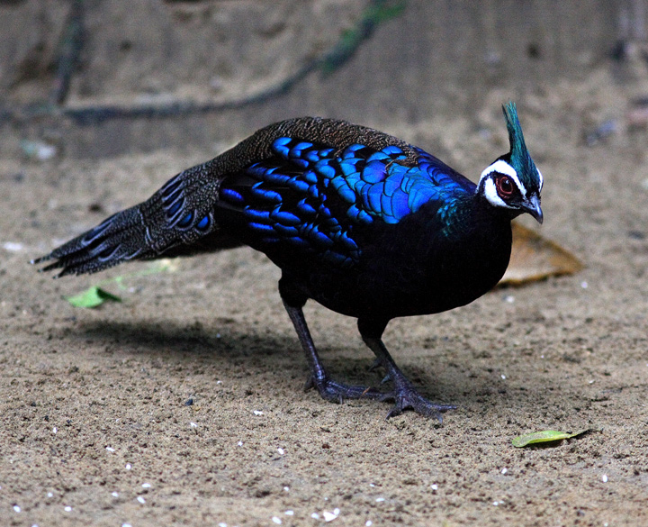 A male Palawan Peacock-pheasant at Sabang Beach, Palawan